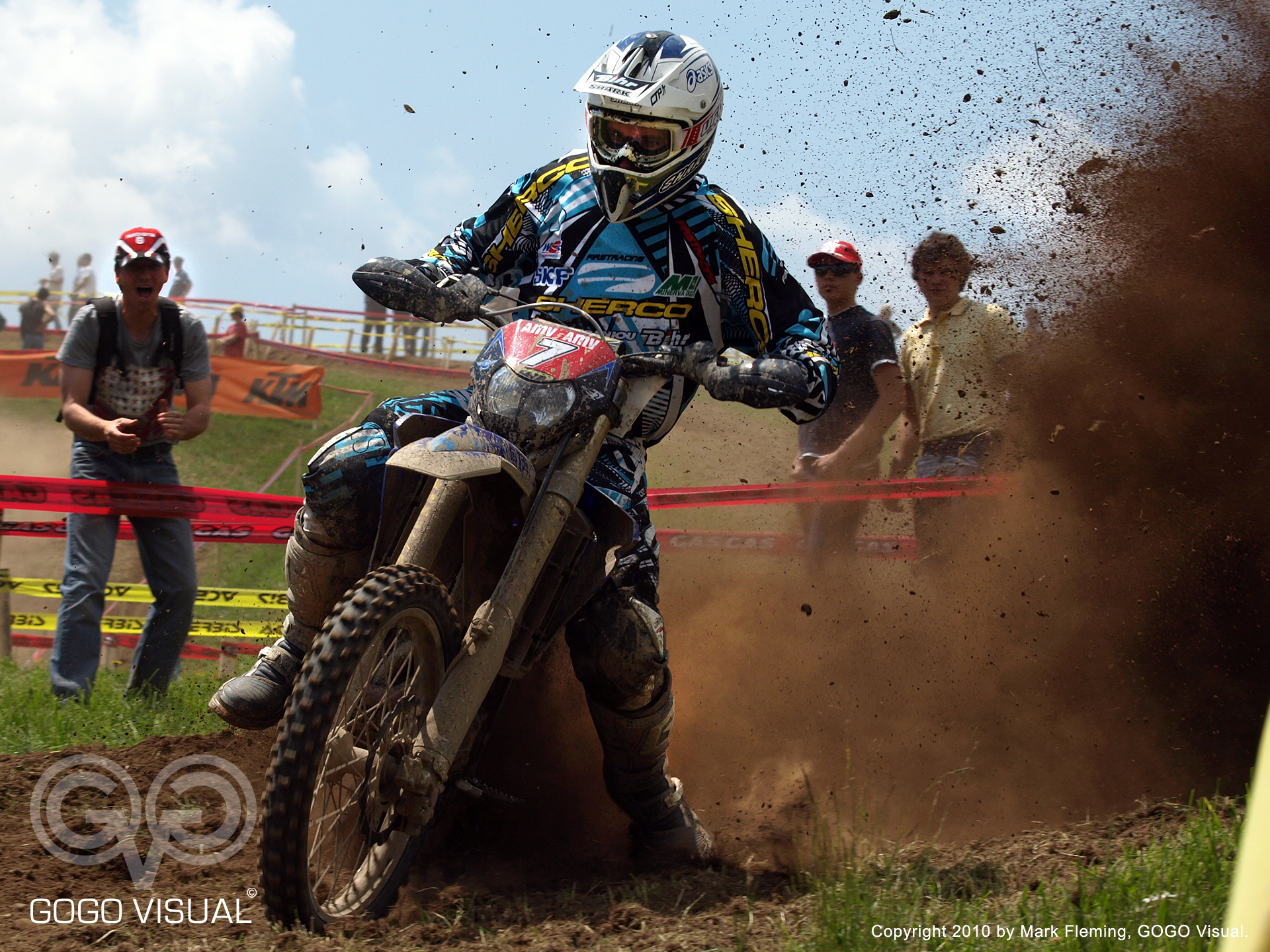 E2 - Fabien Planet (FRA, Sherco) at the 2010 MAXXIS FIM Enduro World Championship GP of Italy, in Lovere (41st Valli Bergamasche).